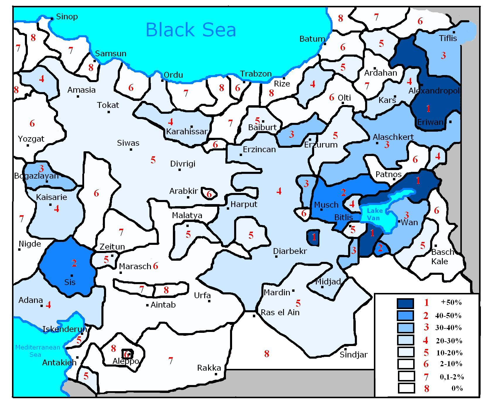 Map of the Armenian population of Eastern Anatolia in 1896. I created this by using the information from this map File:Armenian_population_map_1896.jpg